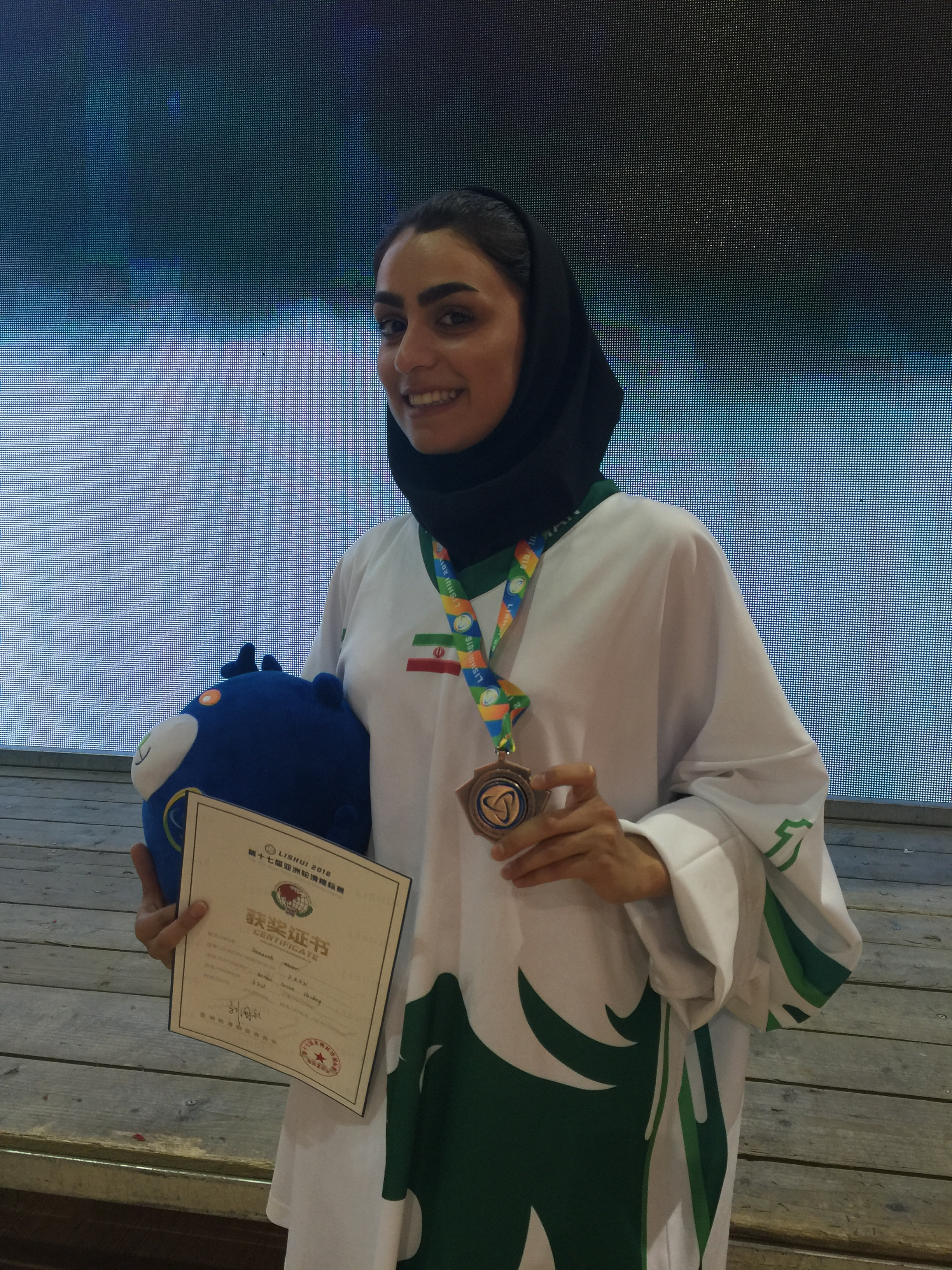 سمانه ناظری پس از کسب مقام سوم تیمی رقابت های آسیایی 2016 لیشویی چین